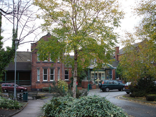 North Entrance, Nottingham City Hospital The City Hospital is located on a massive site which has been continuously redeveloped over the years. The main entrance, shown here, has a pleasntly Edwardian look to it; compare its style and scale with the new building immediately opposite [1].